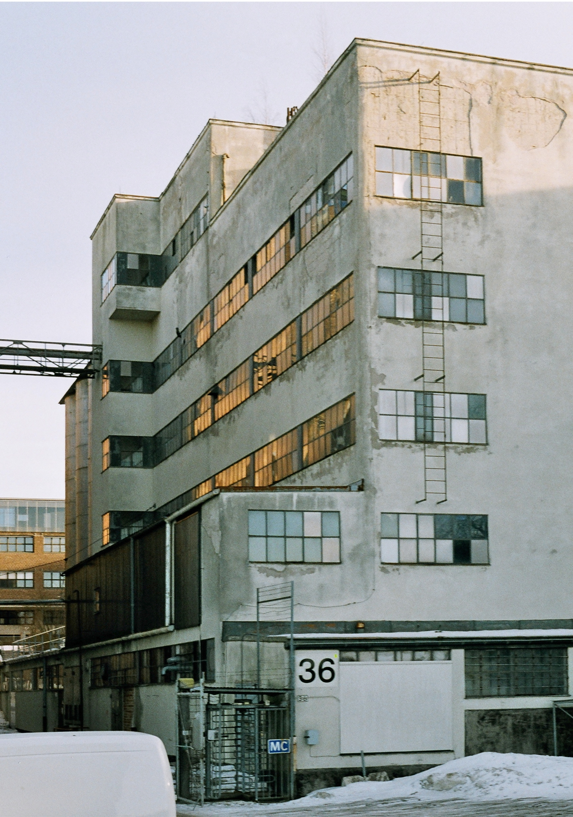 Havrekvarnen, Kvarnholmen 2011.